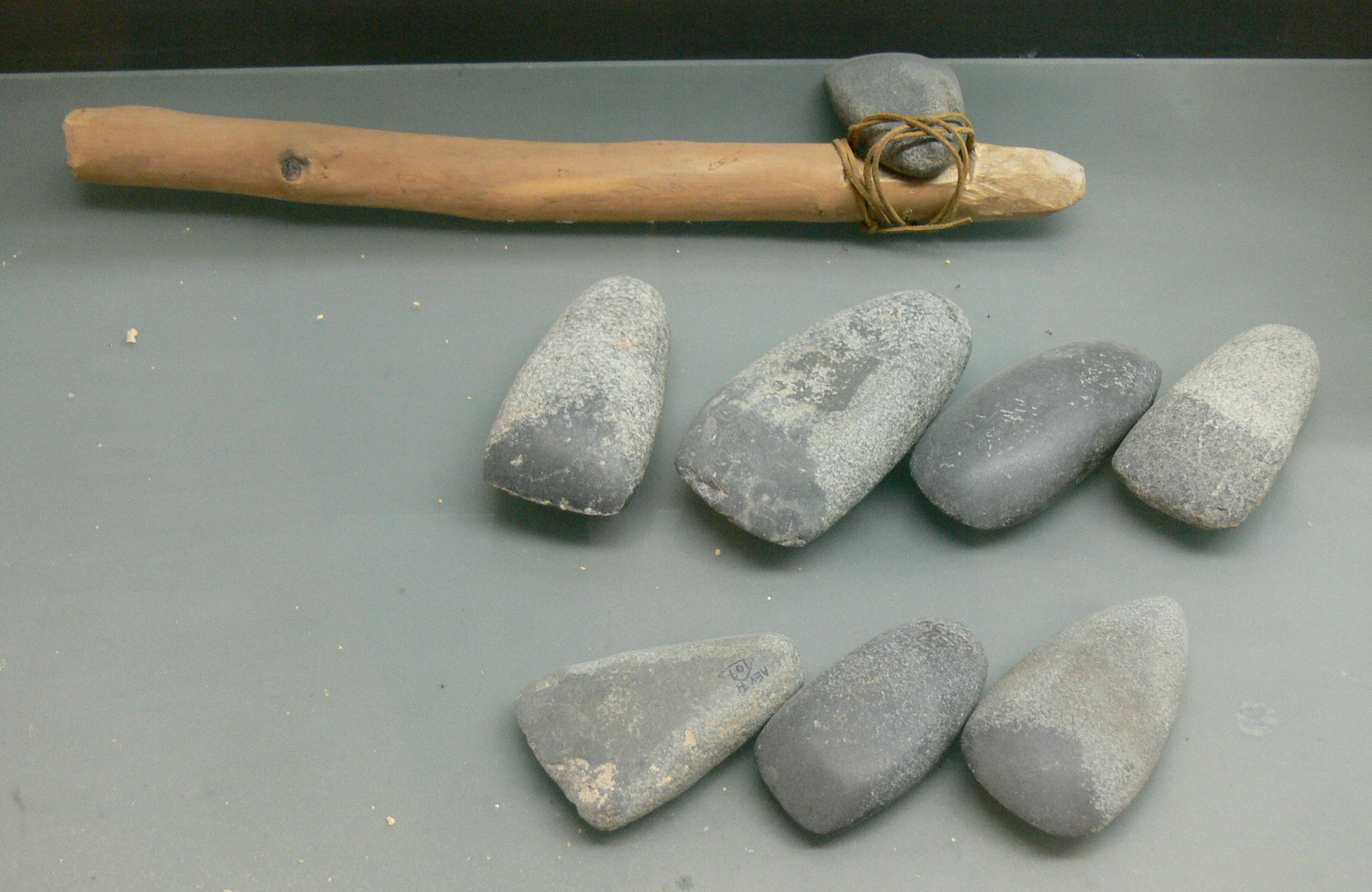 Kyrenia castle ( Northern Cyprus ). Archaeological museum: Objects of the neolithic site at Vrysi - stone axes.